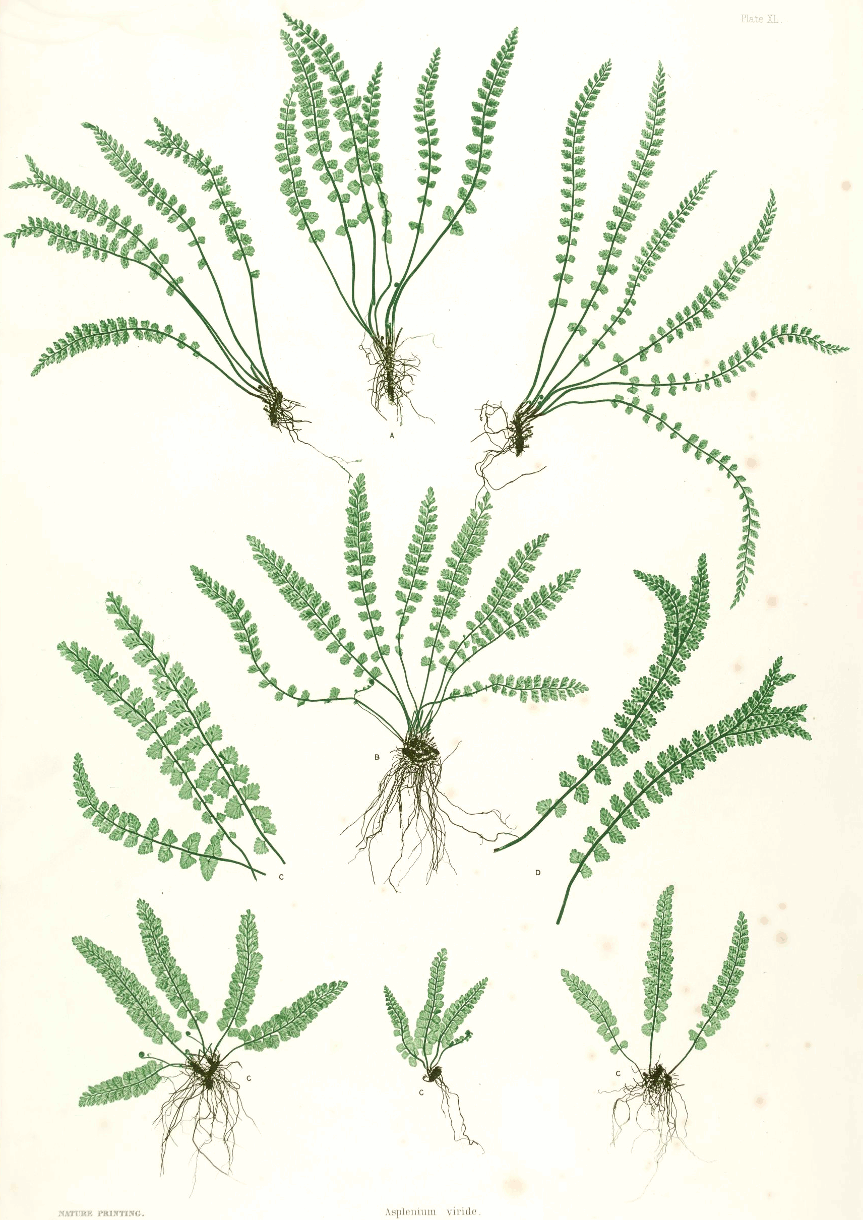 Plate from book